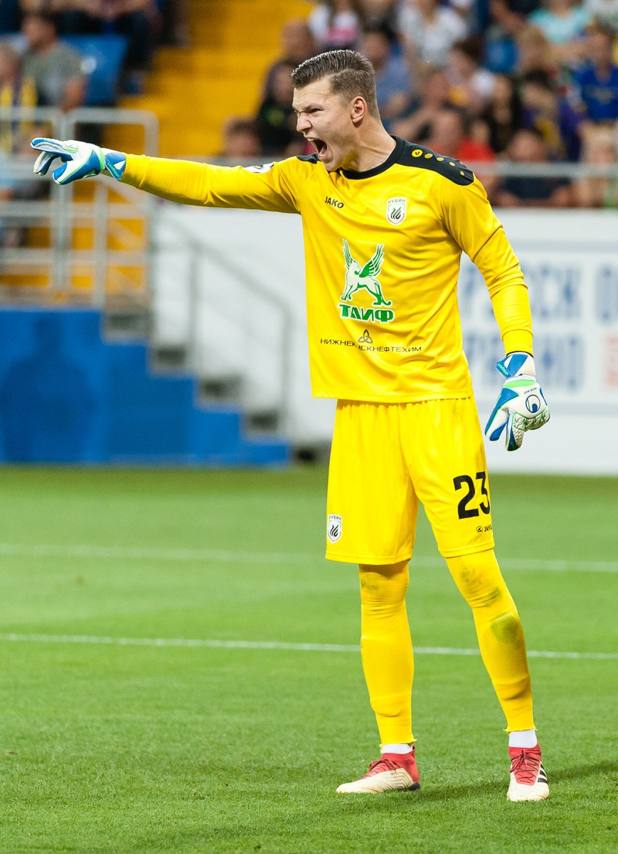 Ivan Konovalov